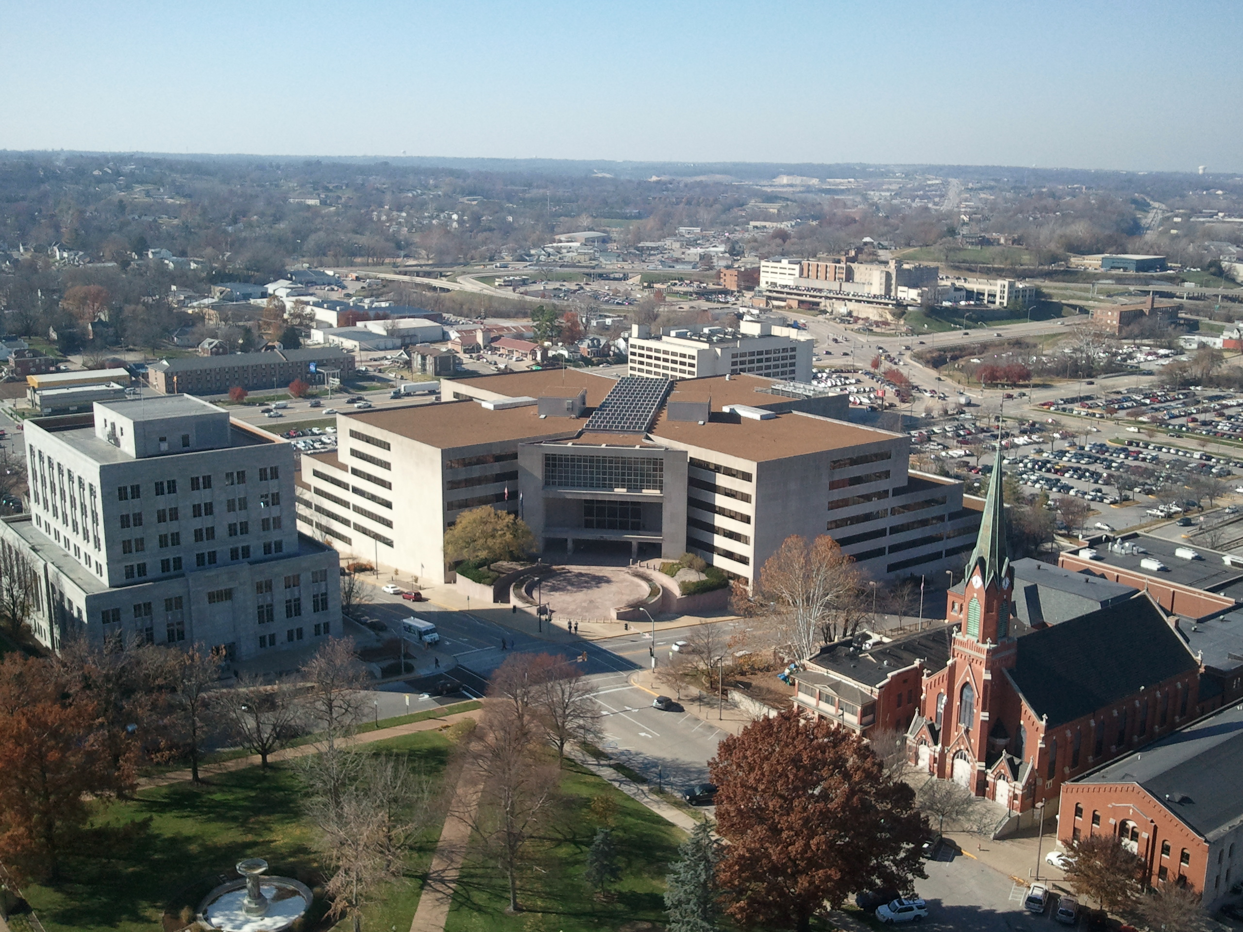 Harry S Truman State Office Building in Jefferson City, MO. Picture was taken from the top of the state capital rotunda.